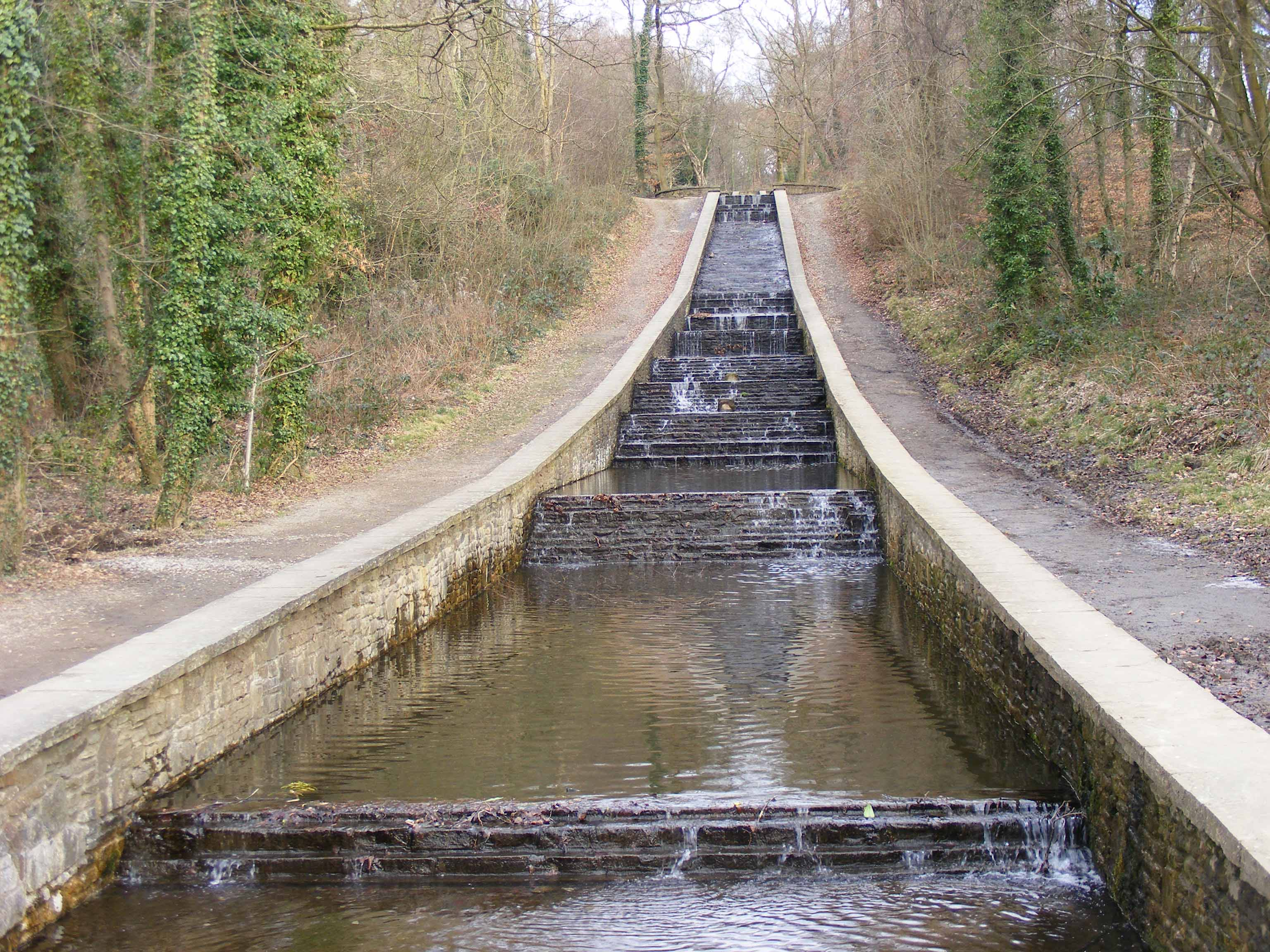 Water feature, Gnoll Park, Neath, Neath Port Talbot/Castell-Nedd Port Talbot, Wales.